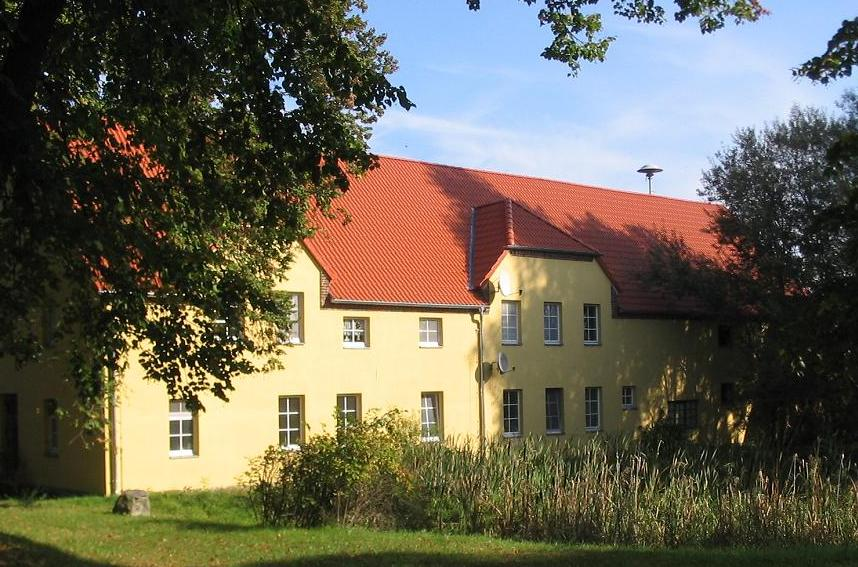 Estate Hagelberg with pont. The village Hagelberg is a part of the town Belzig in the district Potsdam Mittelmark, state Brandenburg, Germany. The village appertains to the nature park Naturpark Hoher Fläming. The eponymous Hagelberg (hill) is with a height of total 200 meters the highest elevation in the Fläming.